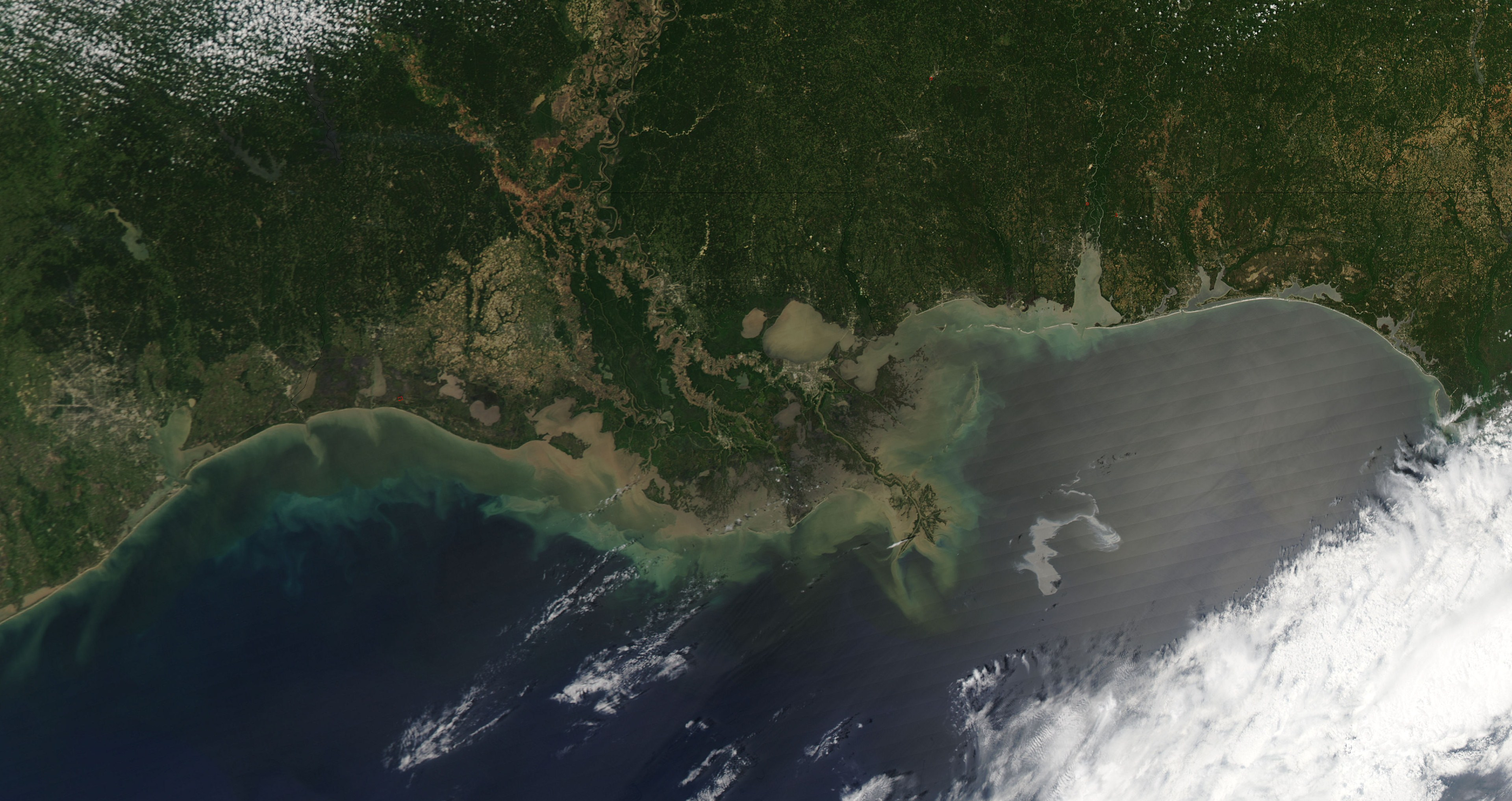 In this image, the Mississippi Delta is at image centre, and the oil slick is a silvery swirl to the right. The oil slick may be particularly obvious because it is occurring in the sun-glint area, where the mirror-like reflection of the Sun off the water gives the Gulf of Mexico a washed-out look.